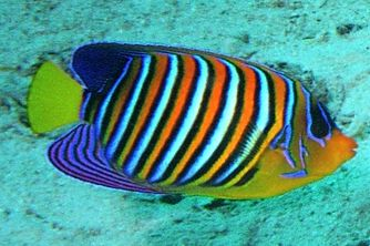 Pygoplites diacanthus